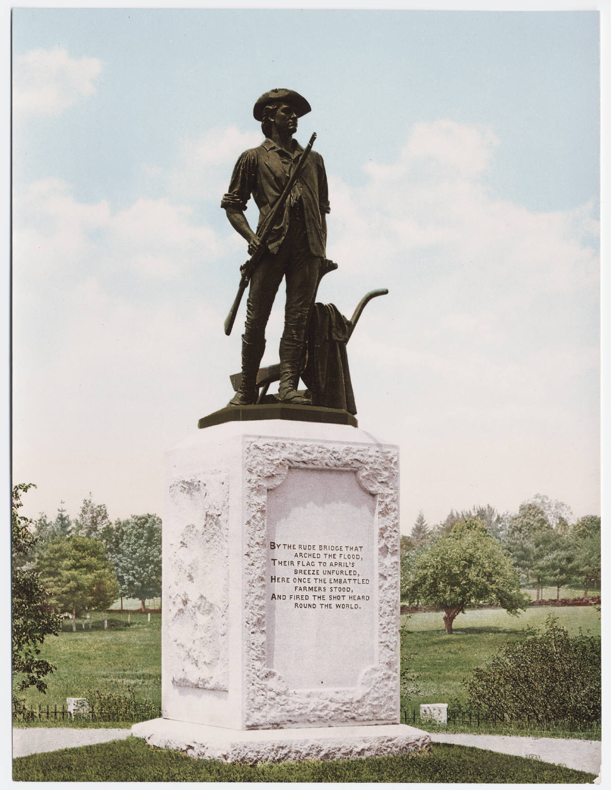 A photochrom postcard published by the Detroit Photographic Company.